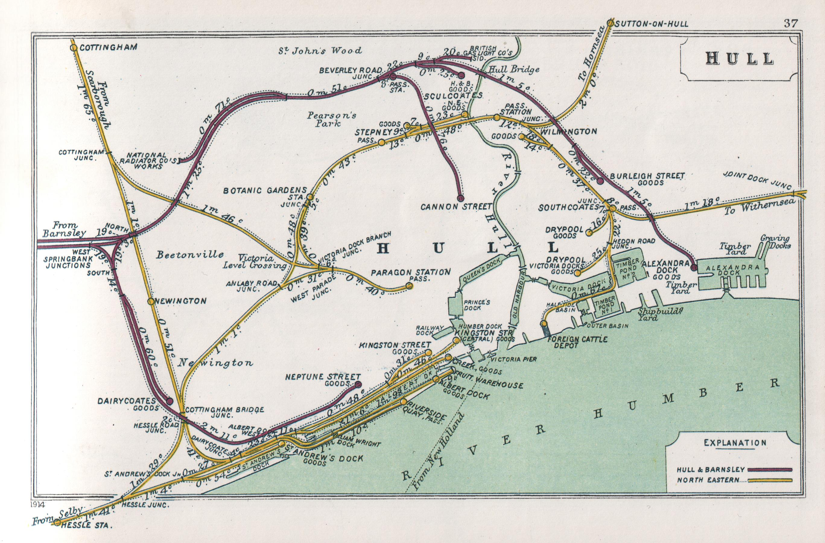 Railway Junctions in Hull pre grouping